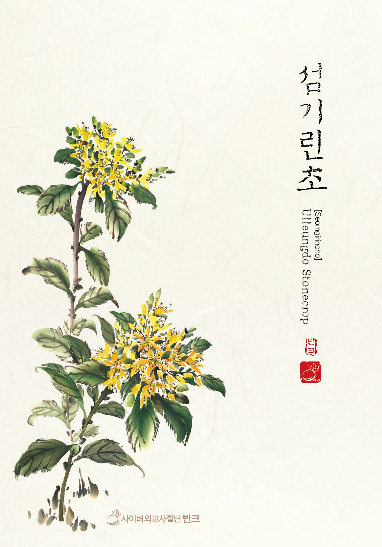 Seomgiricho, also called Ulleungdo Stonecrop, which grows in Ulleungdo, Korea